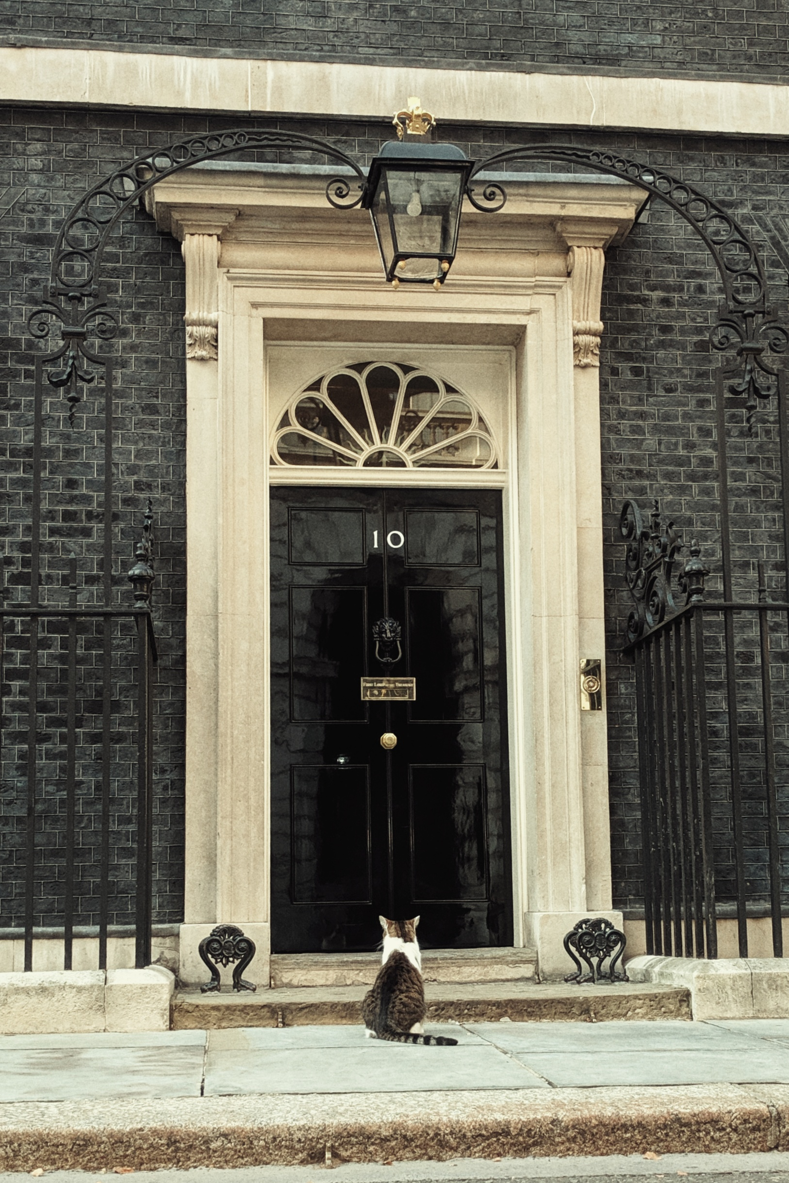 Modified version of another upload (modified on the phone by Snapseed)